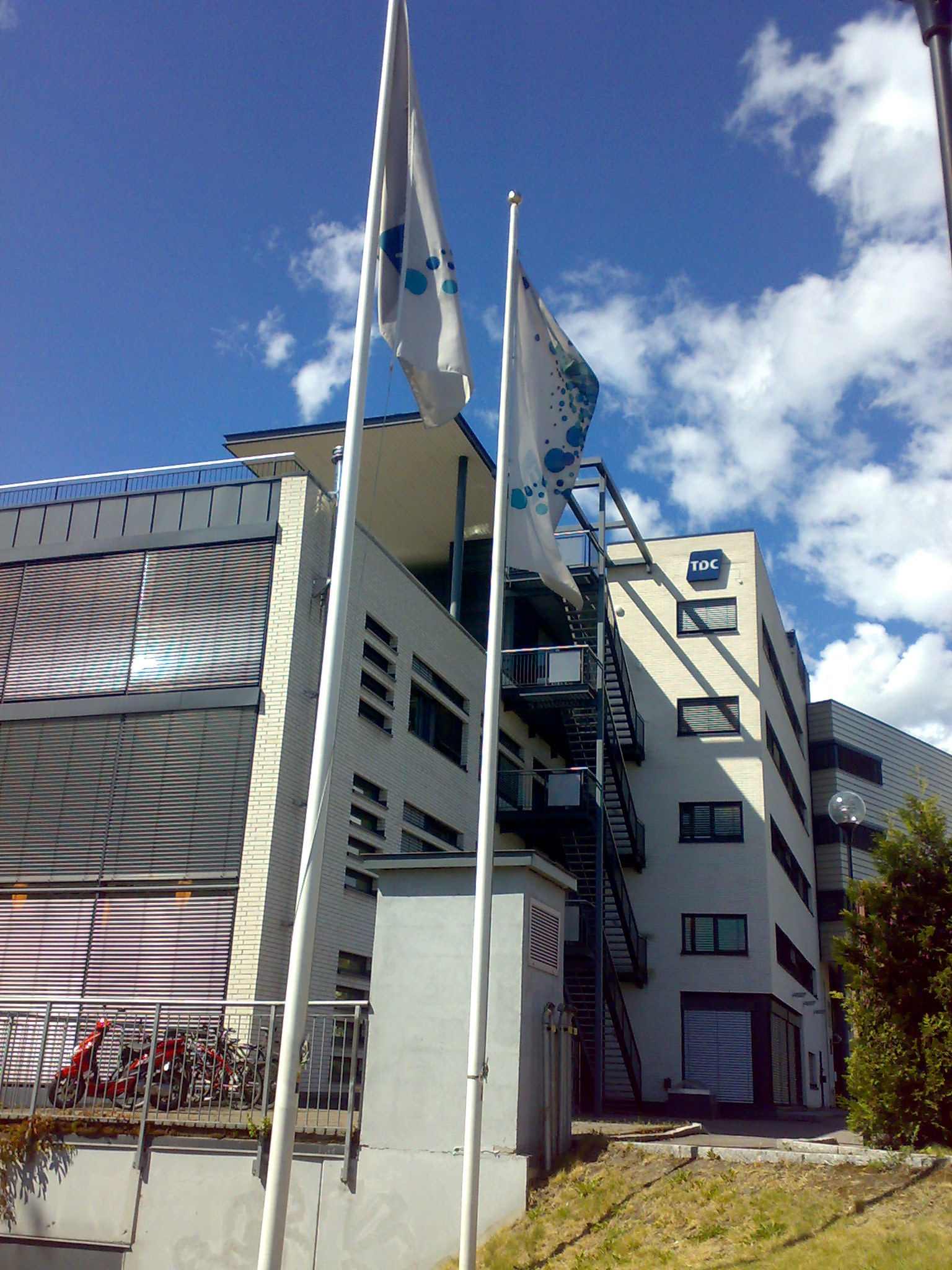 TDC norwegian headquarters, Nydalen, Oslo